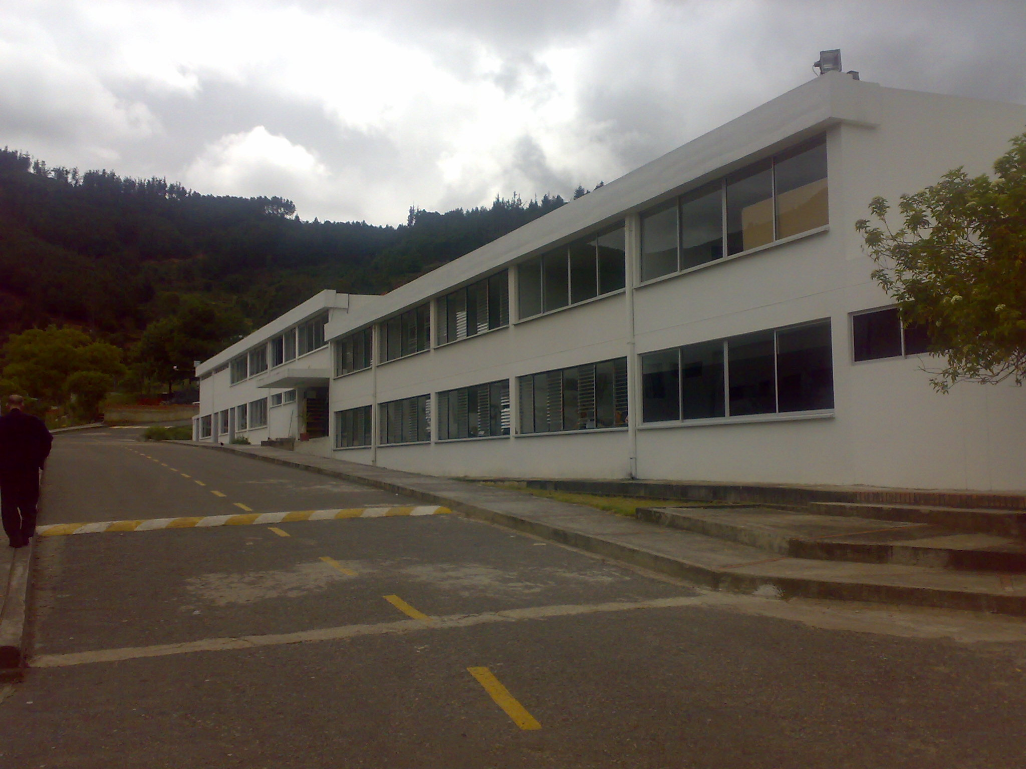 University of Pamplona - Camilo Daza Building - Pamplona, Norte de Santander - COLOMBIA